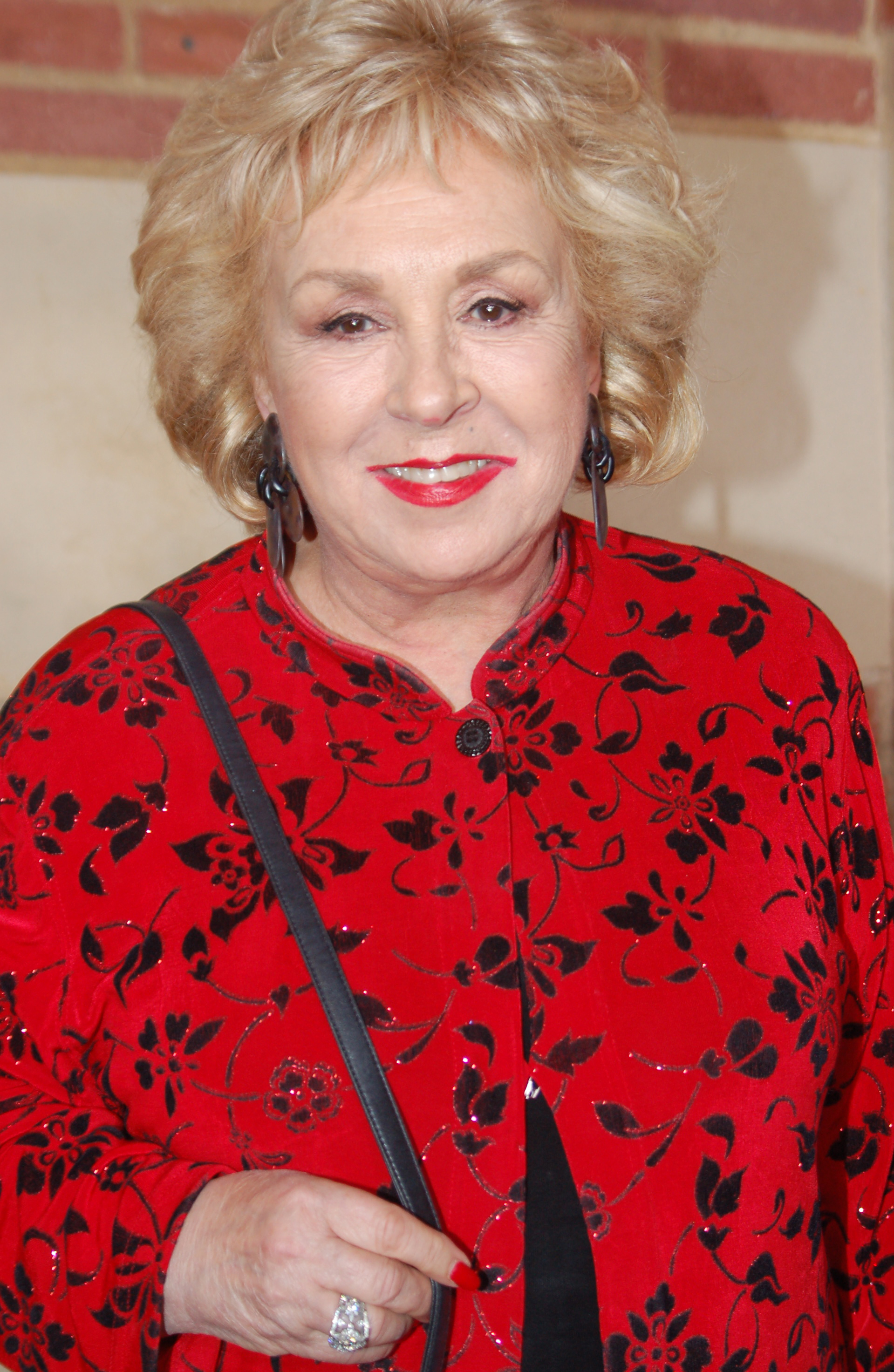 Doris Roberts at a performance of The Hot Chocolate Nutcracker in December 2010.